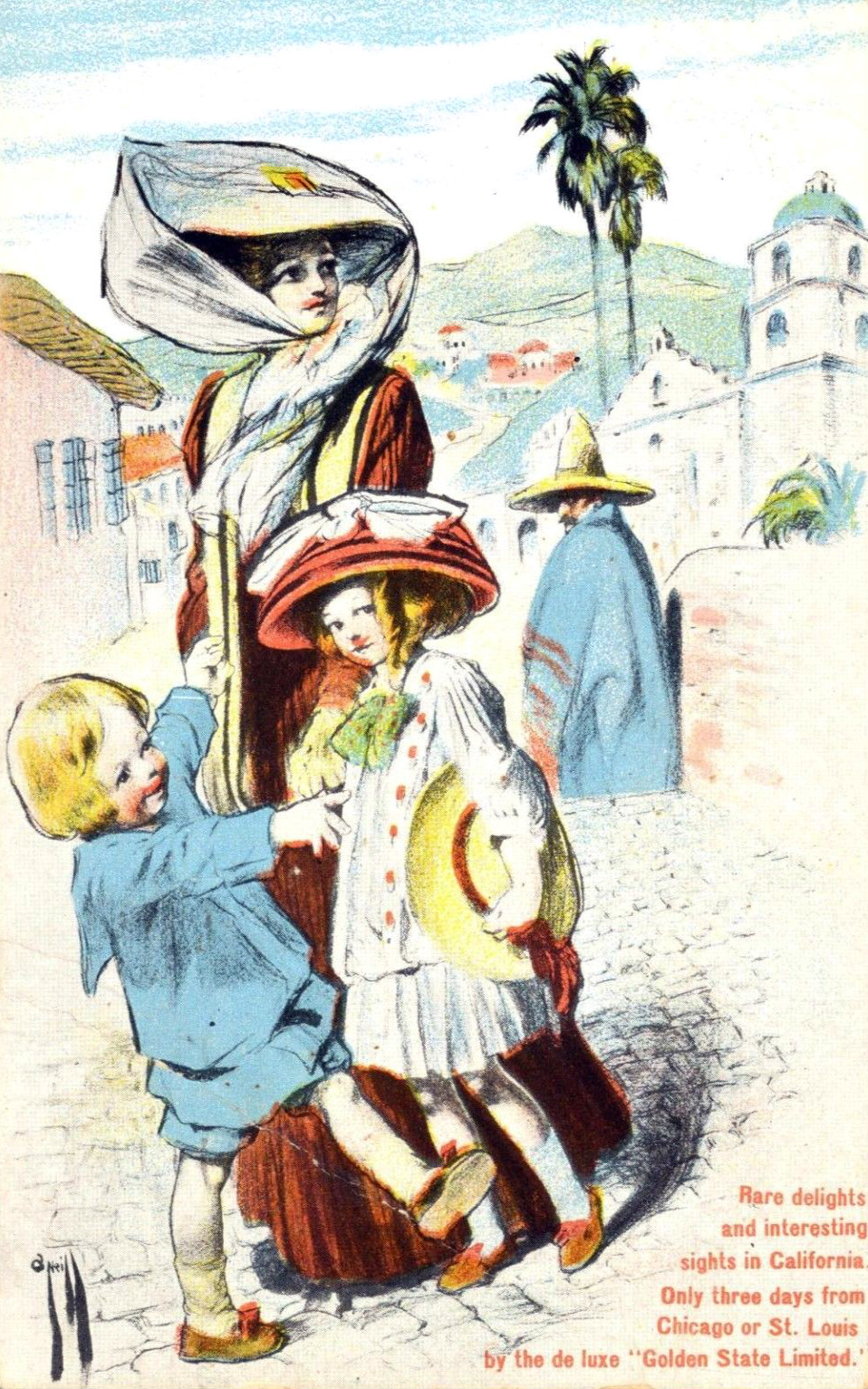 Postcard promoting the Rock Island's Golden State Limited train which traveled between Chicago and Los Angeles. The railroad hired American illustrator Rose O'Neill to produce some of its promotional material.